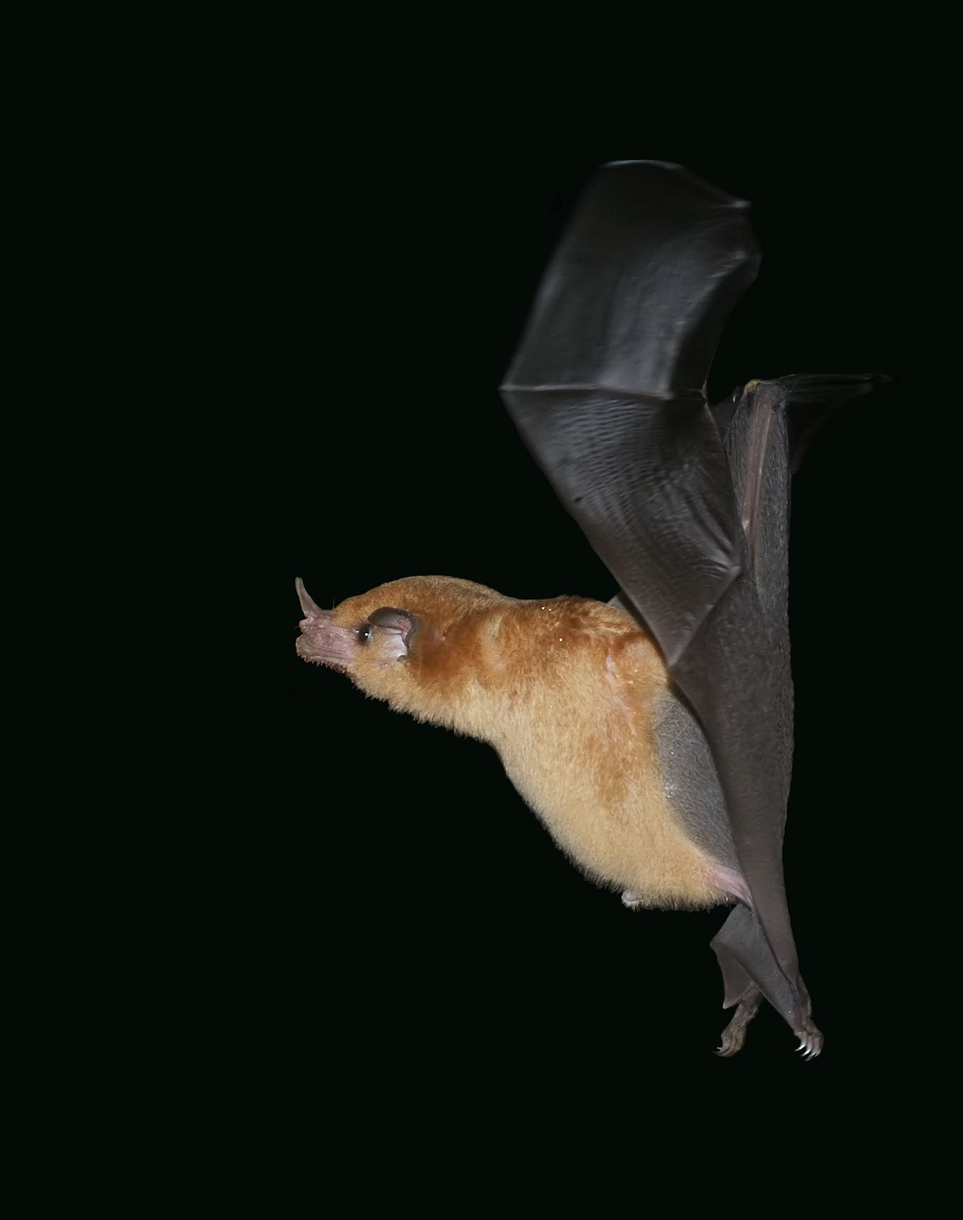 Orange Nectar Bat at Rara Avis near Las Horquetas, Costa Rica